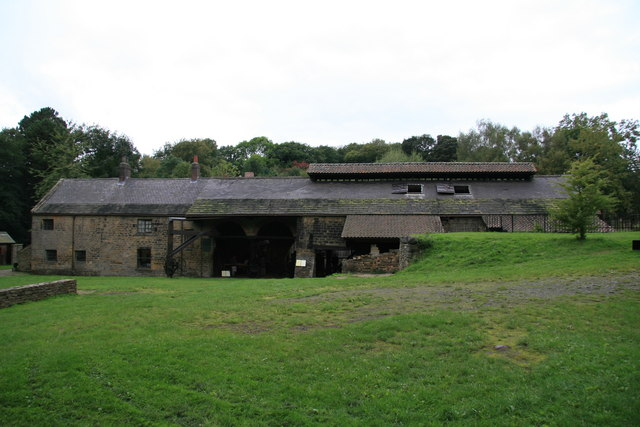 Wortley Top Forge A very important heritage site, now a museum. Use water powered helve hammers to produce wrought iron railway axles but closed in 1908. Is also home to a variety of stationary steam engines.